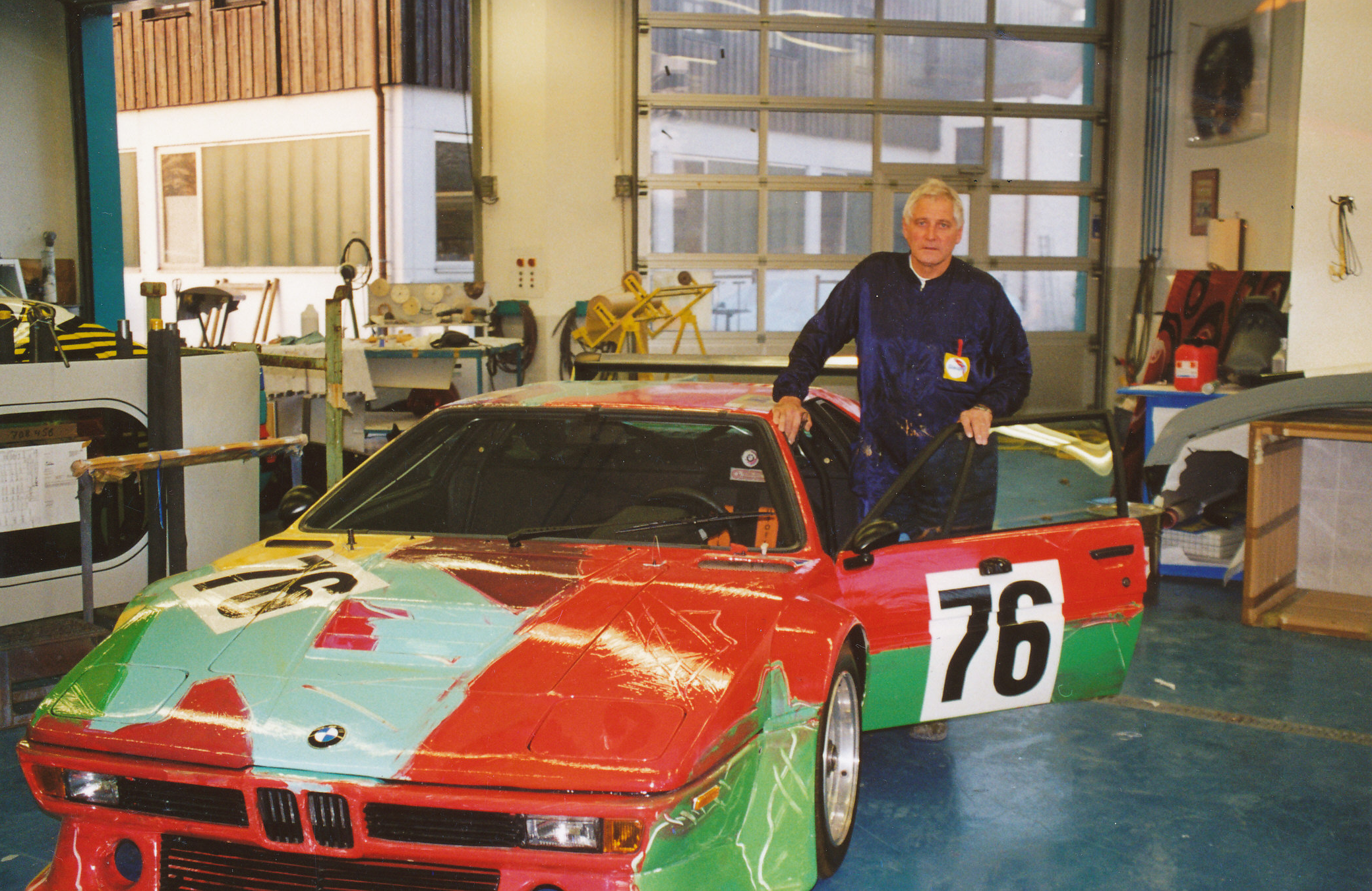 Walter Maurer